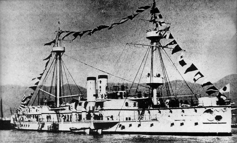 Taken before 1946, according to Japanese Copyright law is considered Public Domain.